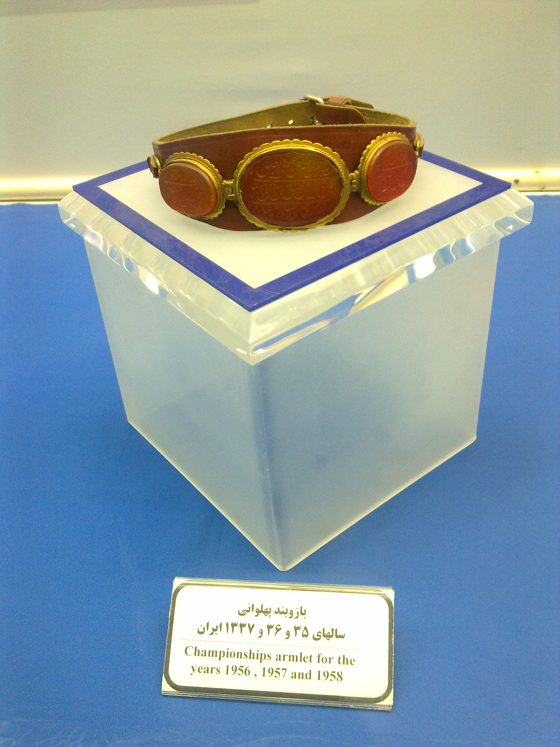 Gholamreza Takhti's Championship armlet for Iranian ancient Zorkhaneh sport ( Varzesh-e Bastani ) . Years 1956 , 1957 and 1958 . Imam Reza museum in Mashhad .